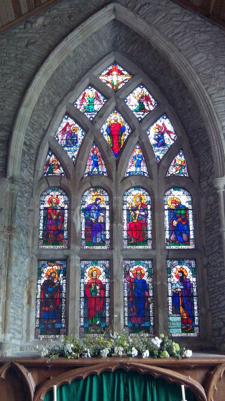 The east window of St Laserian's Cathedral, Old Leighlin depicting 8 Irish Saints by Catherine Amelia O’Brien.